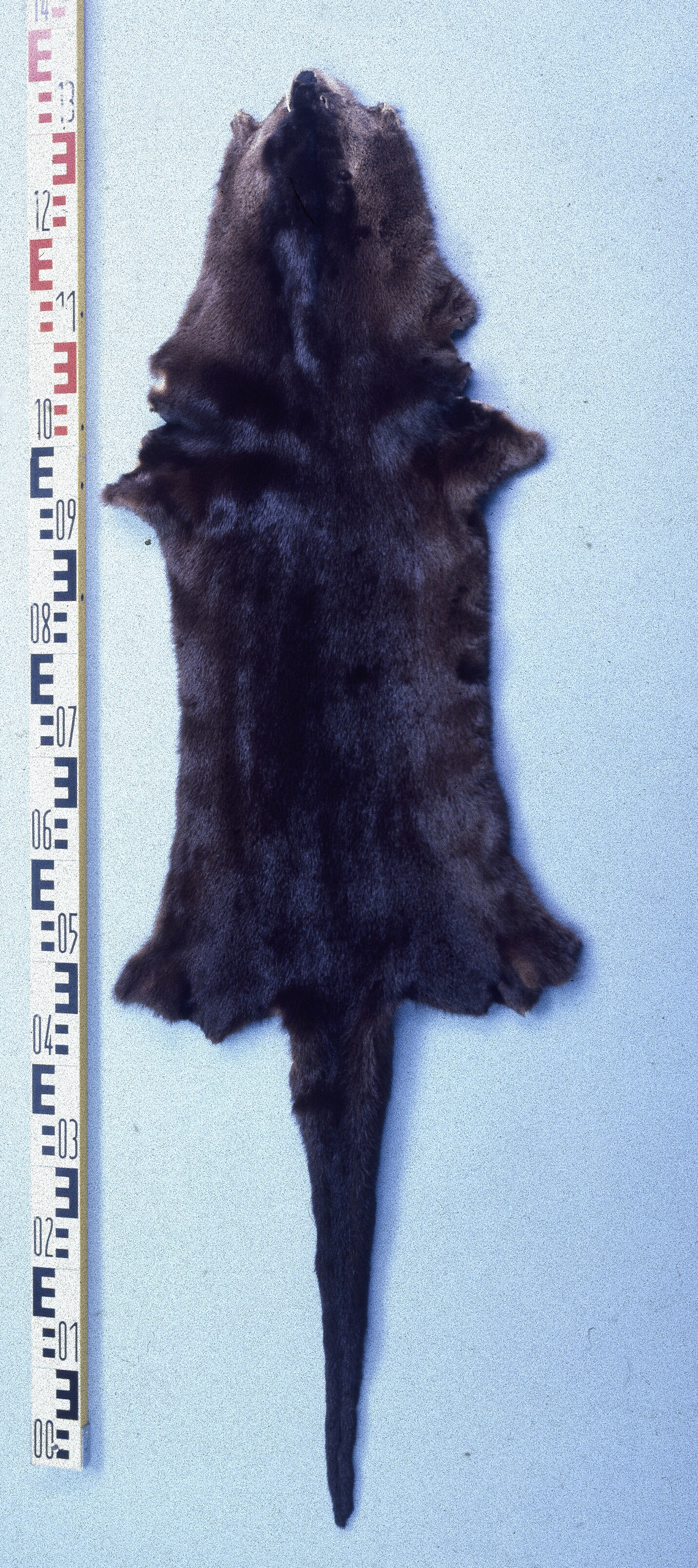 River Otter fur skin(Lutra (Lontra) canadensis. Fur skin collection, Bundes-Pelzfachschule, Frankfurt/Main, Germany